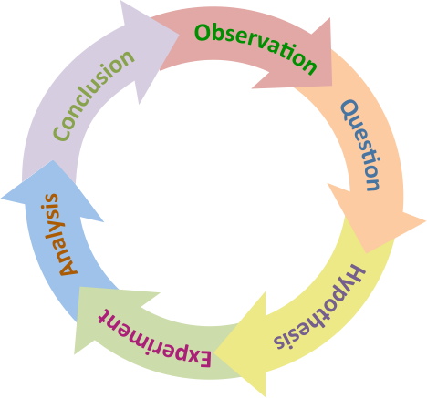 The Scientific Method. Observations of the natural world lead to questions. Scientific questions generate hypotheses, many of which may be tested through controlled experimentation. Experimentation and analysis allows hypotheses to be falsified, which provide information (or conclusions). The process of scientific experimentation leads to more observations and questions.